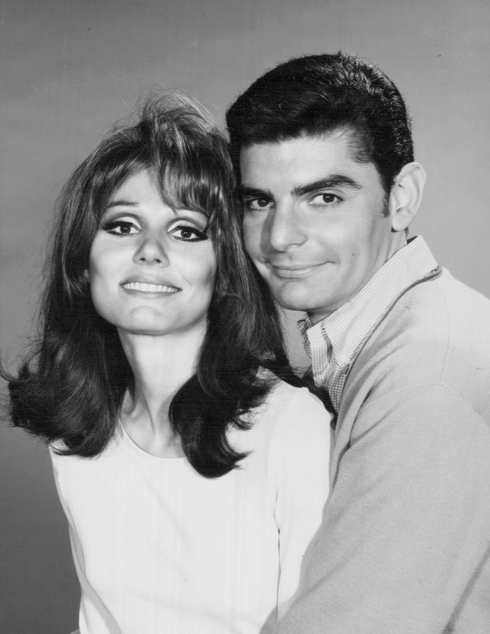 Photo of Richard Benjamin and Paula Prentiss from the television series He & She. The item has no copyright markings on it as can be seen in the links above.